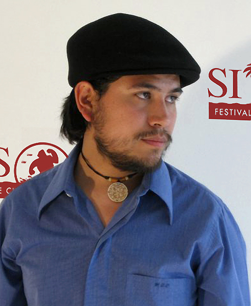 Mexican filmmaker César Amigó at Sitges Gala